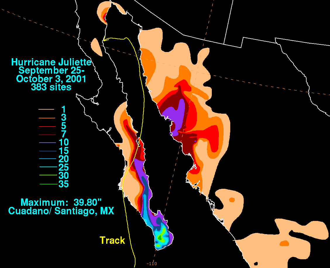 Rainfall produced by Hurricane Juliette during September and October 2001.